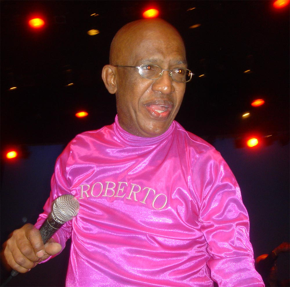 Roberto Roena in Cali, Colombia